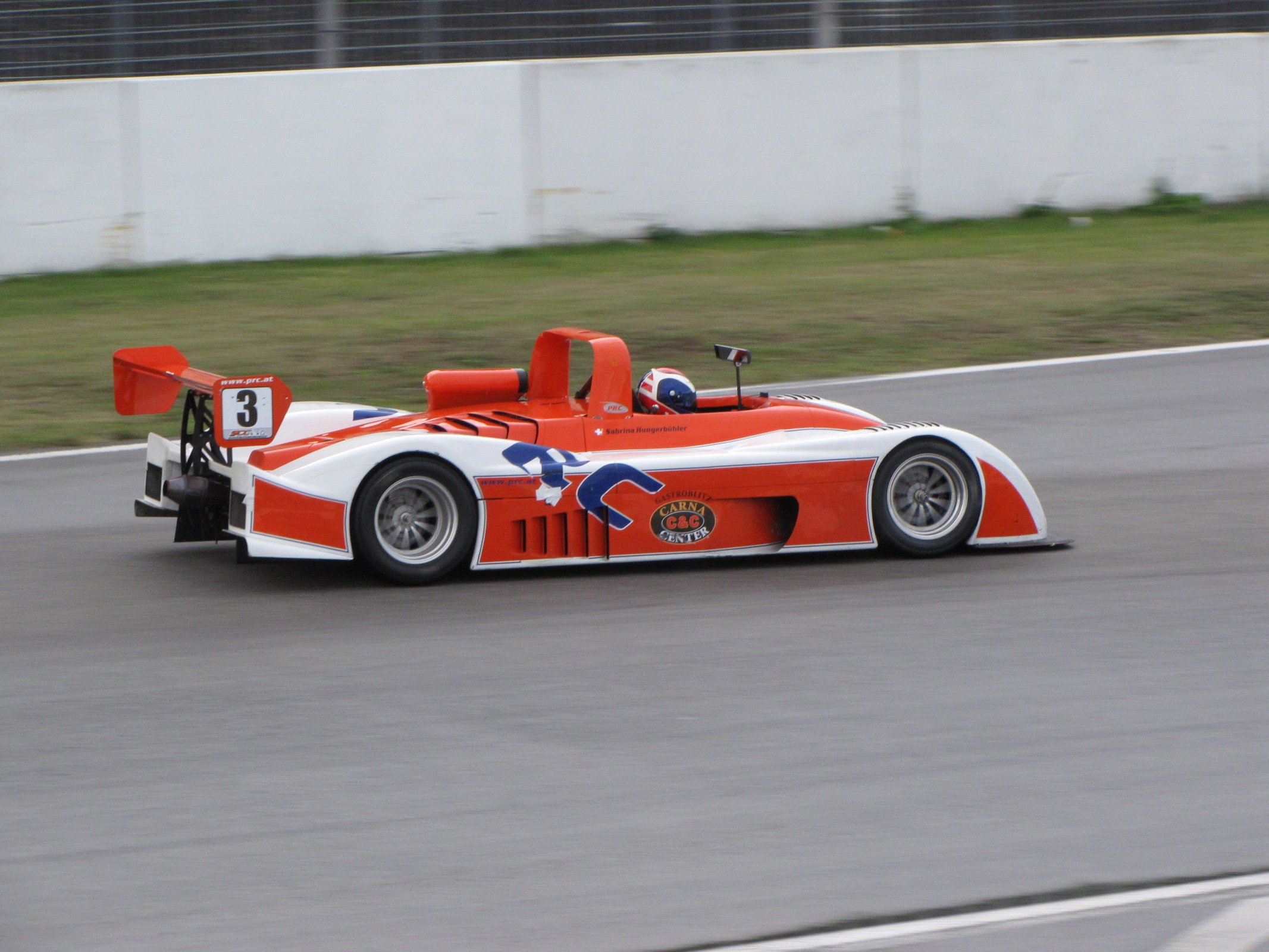 Sabrina Hugenbühler driving a PRC LM at the Rheintal race 2009 in Hockenheim.